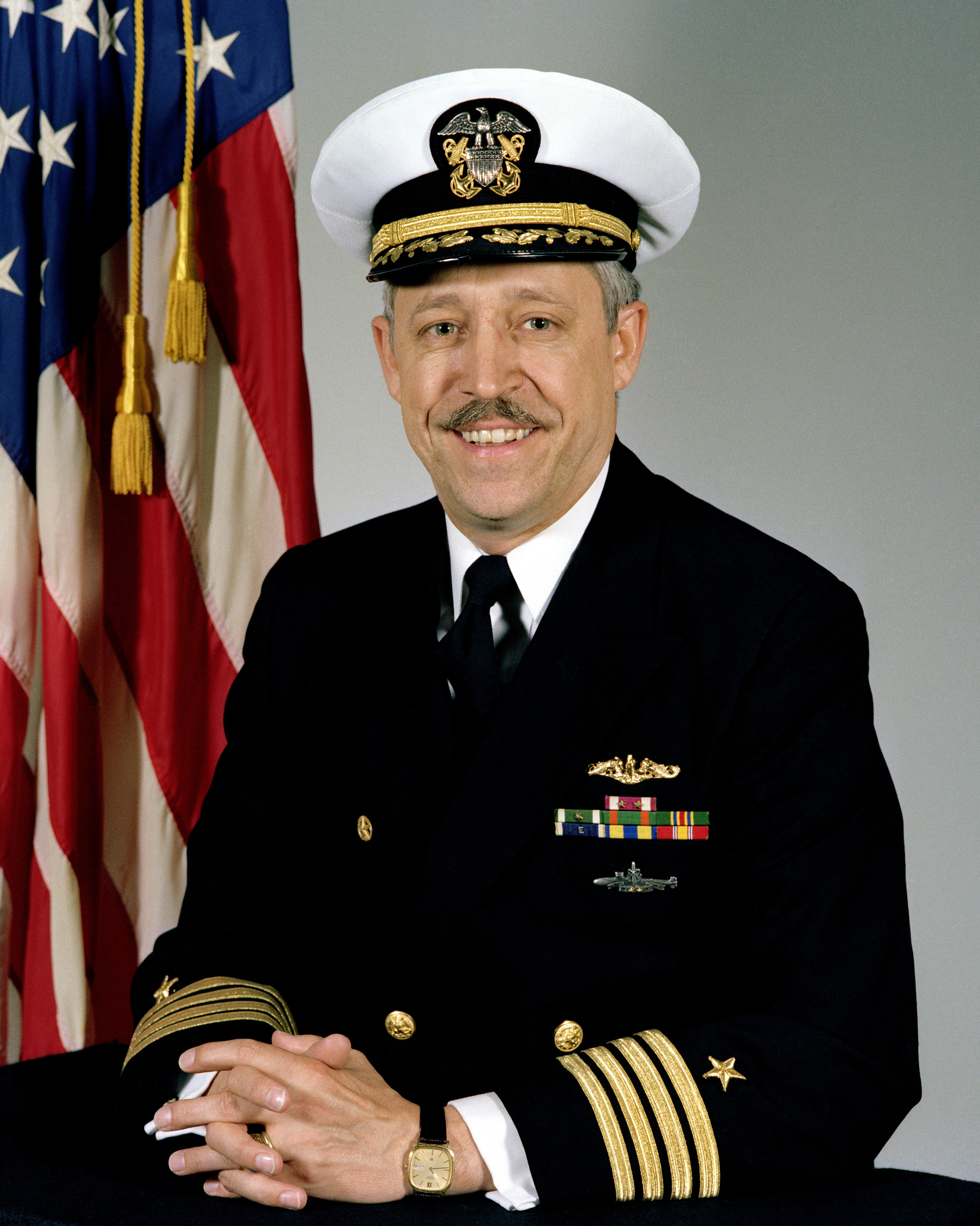 CAPT Vigil L. Hill (covered) 05/20/1983